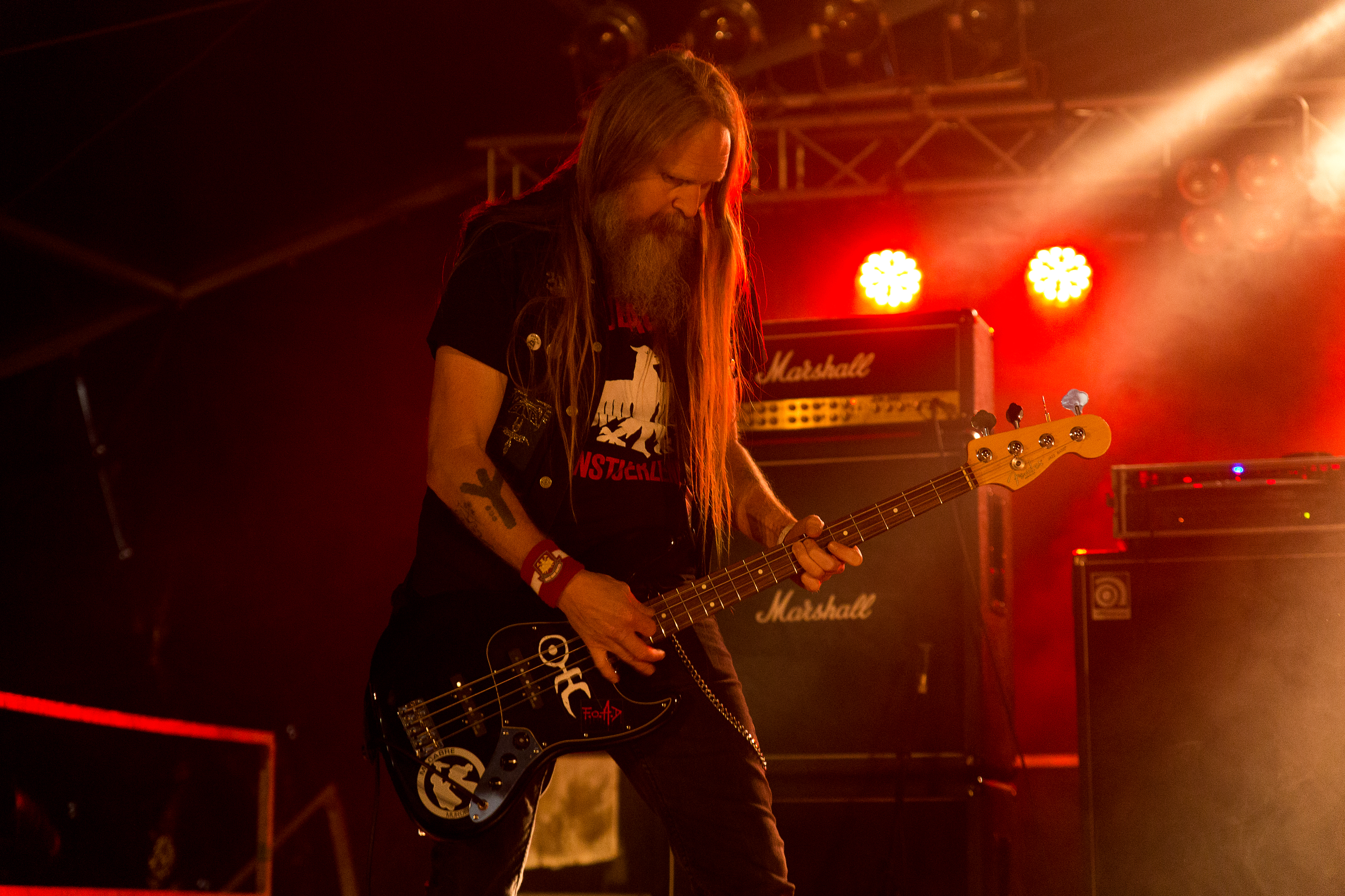 The Swedish death metal band Bombs of Hades at the Party.San Metal Open Air 2016 in Obermehler-Schlotheim/Germany